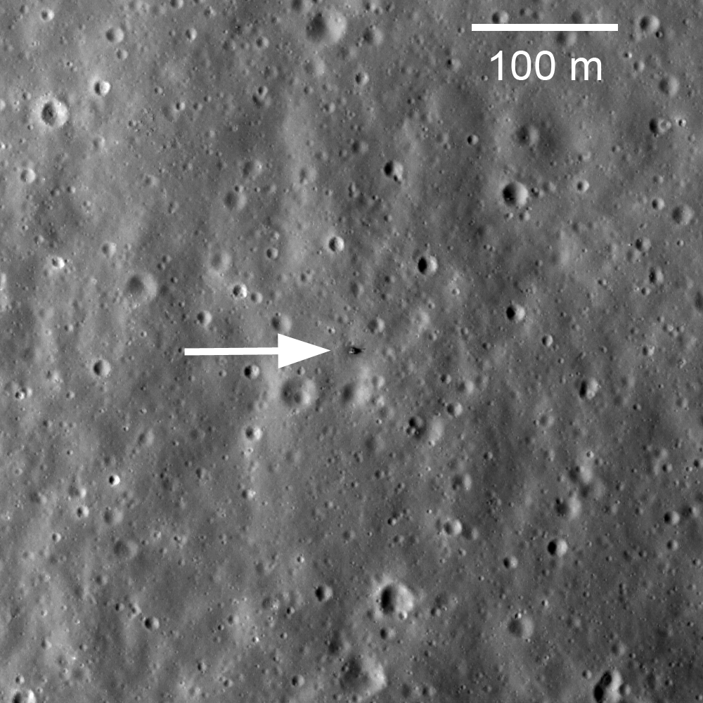 Luna 20 descent stage as seen from orbit by Lunar Reconnaissance Orbiter 30 January 2010